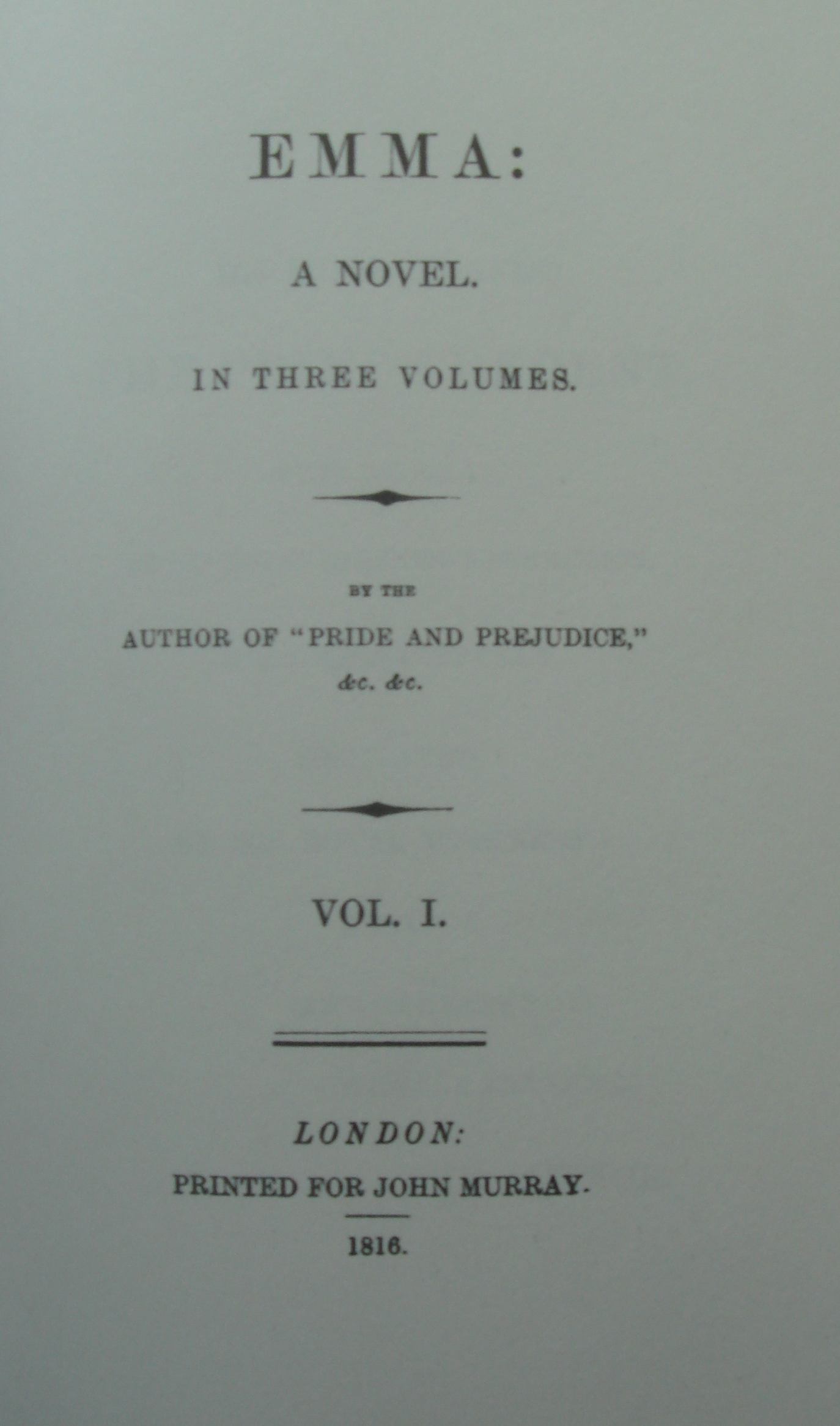 Title page of Jane Austen's original edition of Emma (1816)